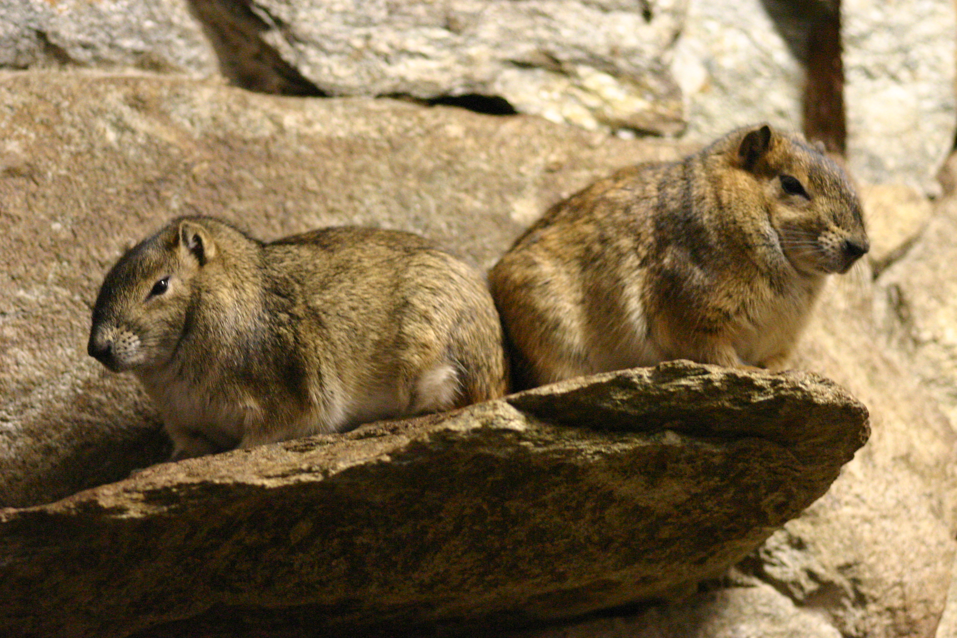 Kerodon rupestris, Rock Cavvy, By Brian Gratwicke